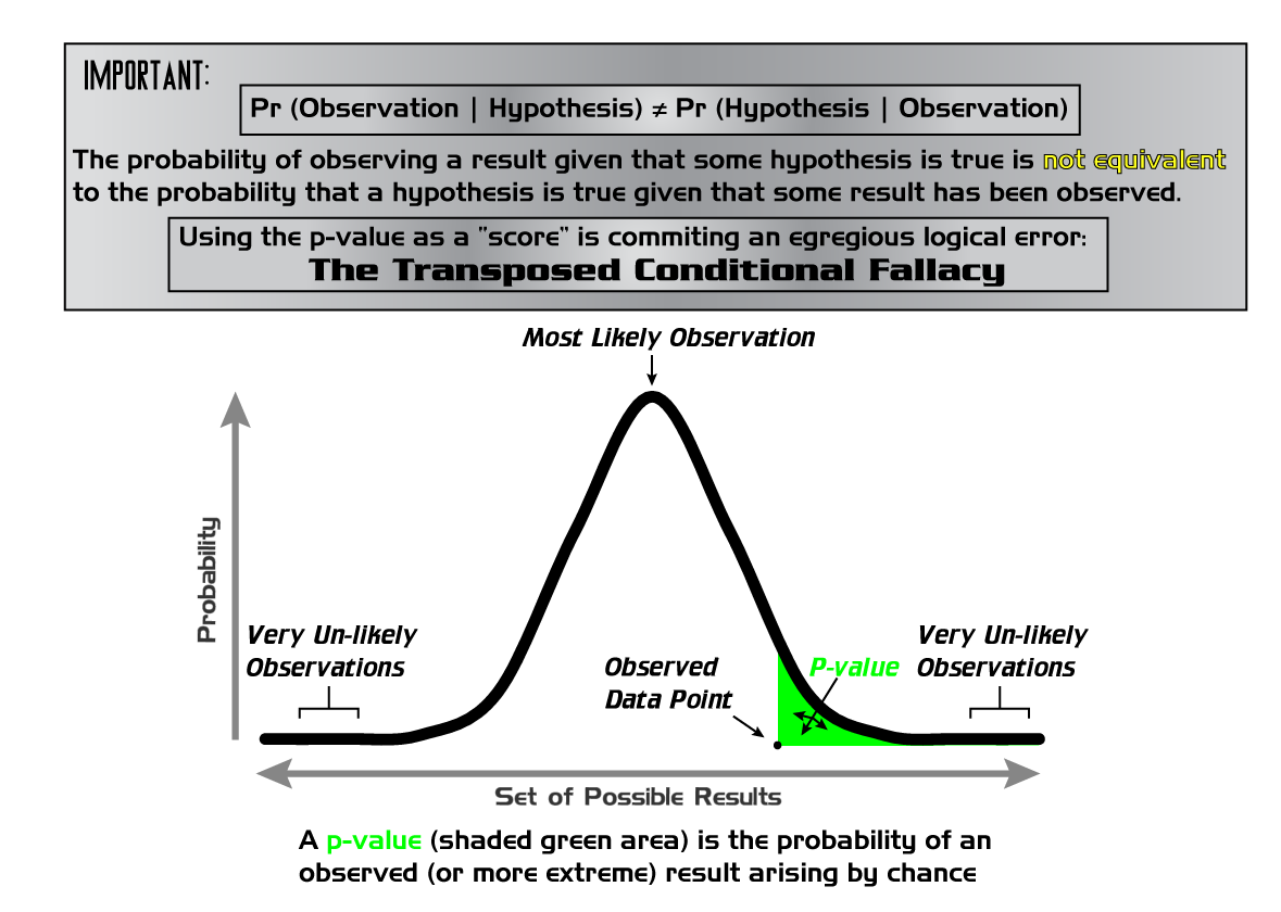 Graphical explanation of a P-value addressing a logical error commonly made in interpretation.